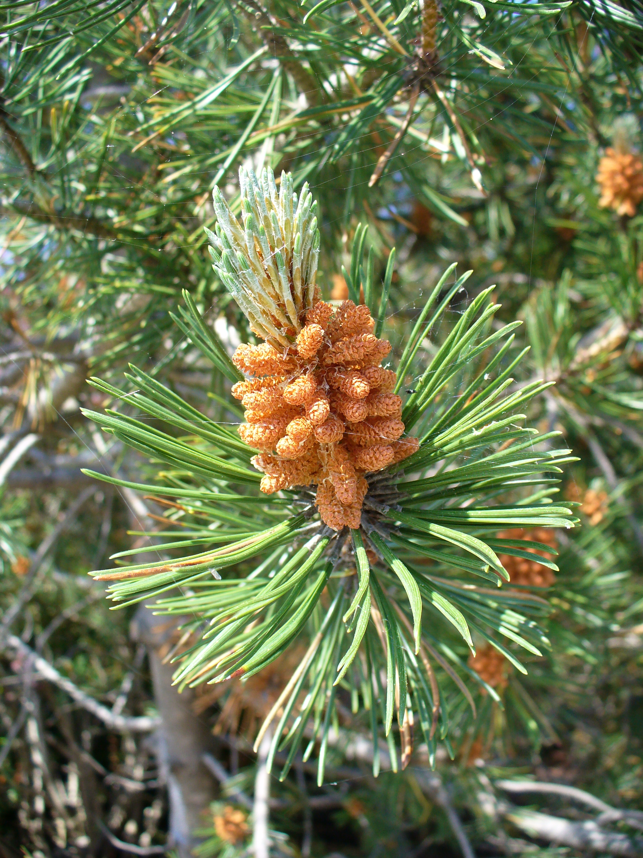 I am the originator of this photo. I hold the copyright. I release it to the public domain. This photo depicts Pinus banksiana pollen cones, in Newfoundland.